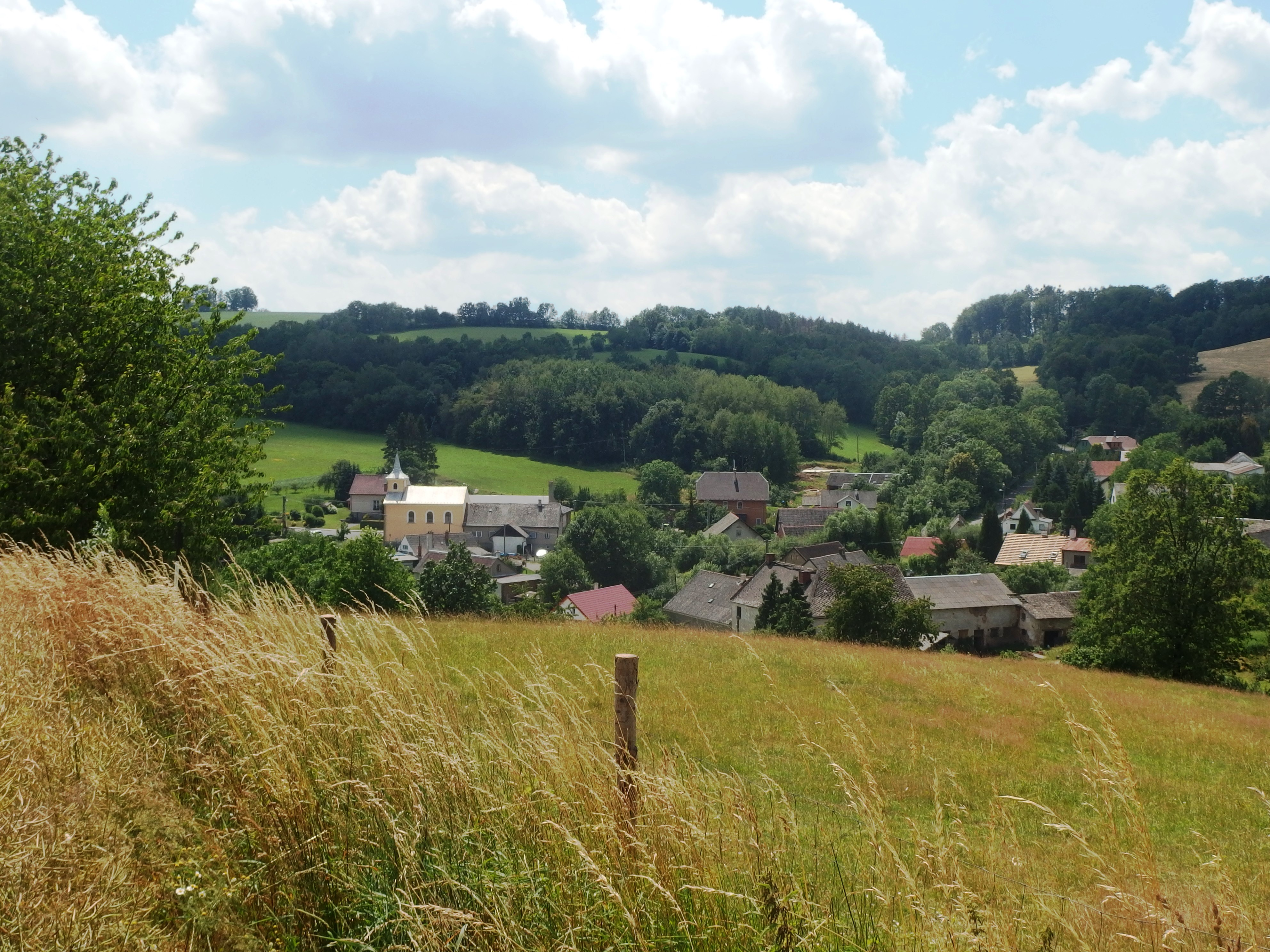 Libina, Šumperk District, Czechia, part Obědné.